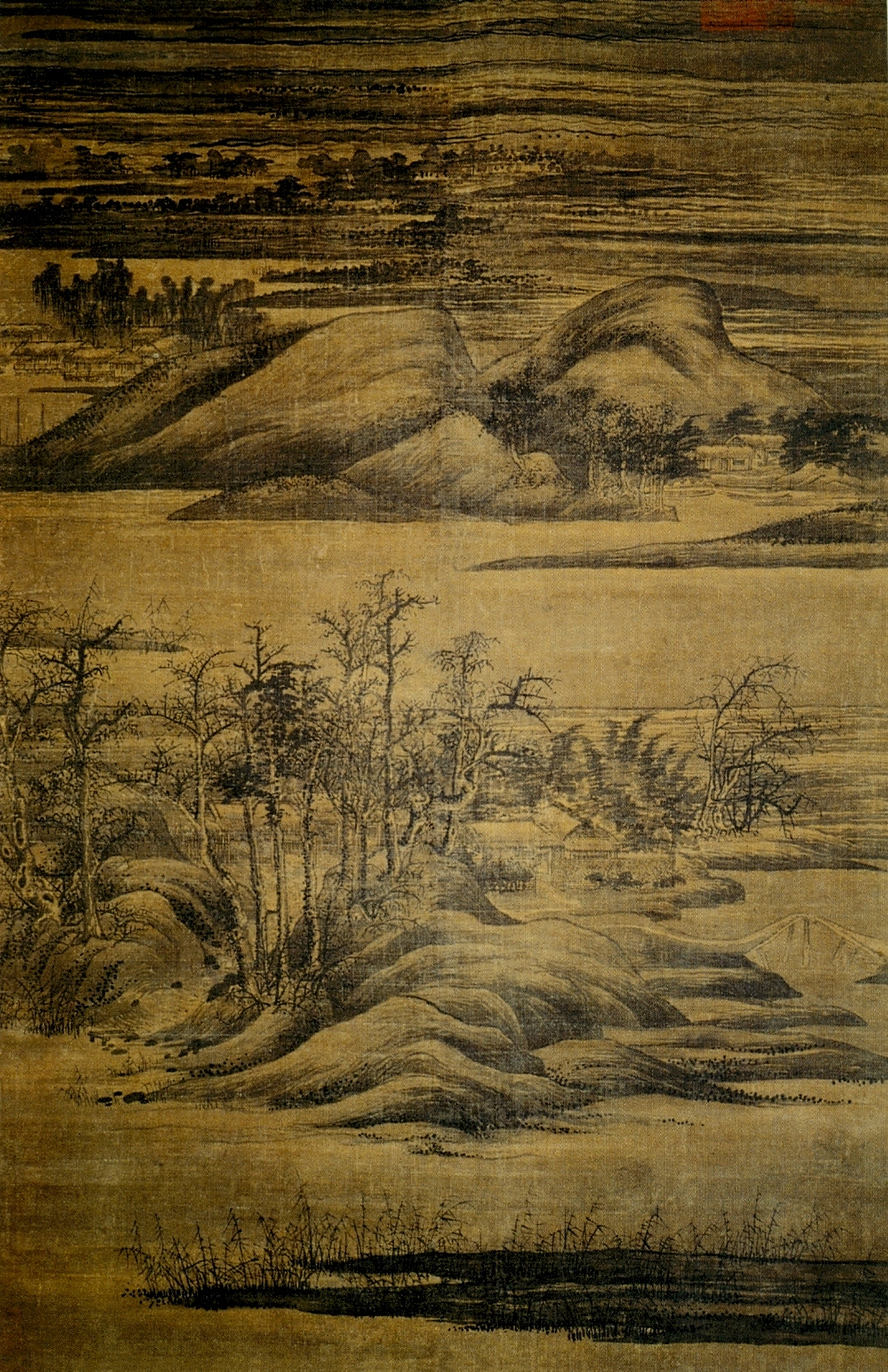 Dong_Yuan._Wintry_Groves_and_Layered_Banks_ca._950_(181,5x116,5cm)_Kurokava_Inst._Hyogo